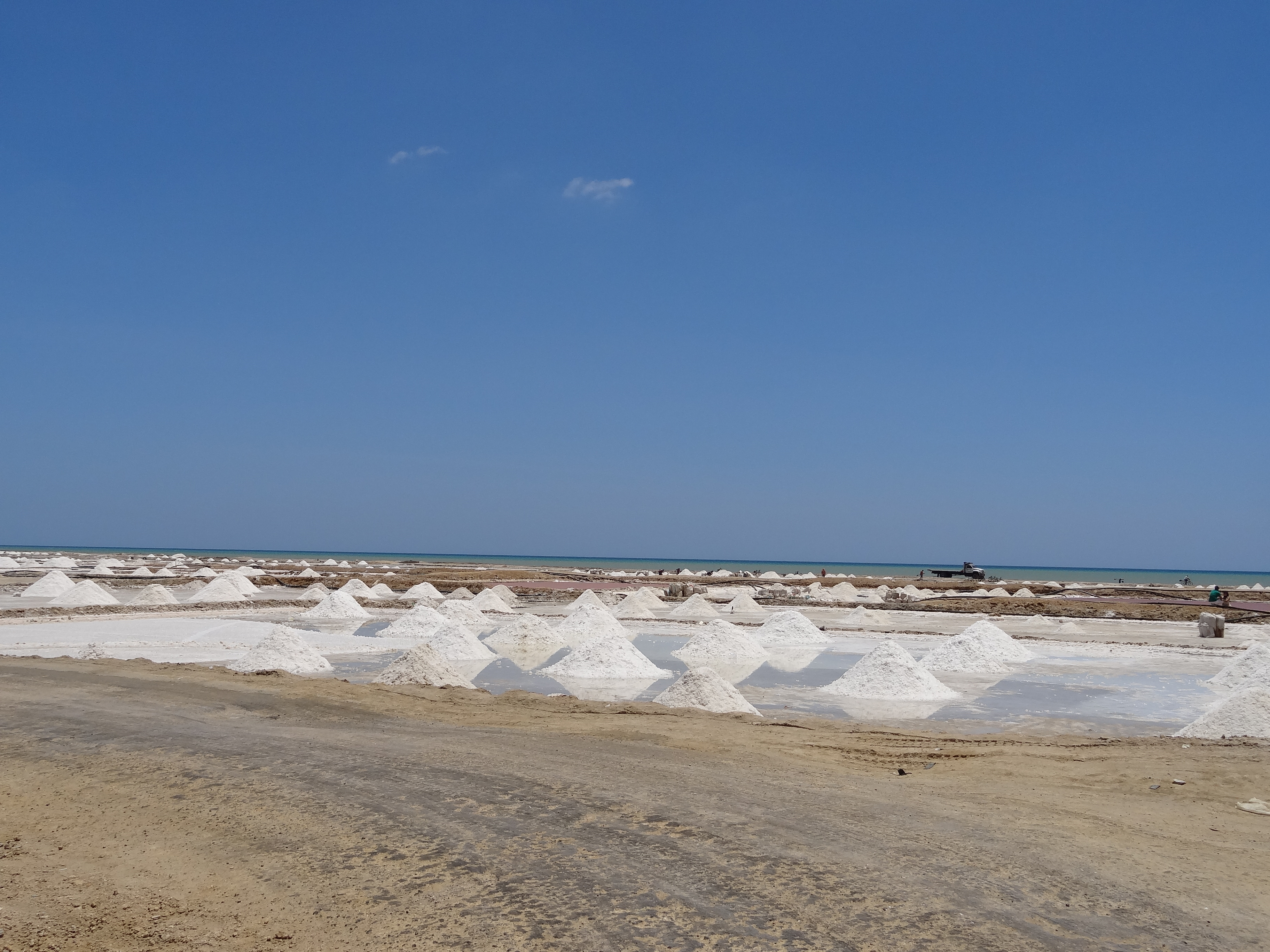 minas de sal en Manaure